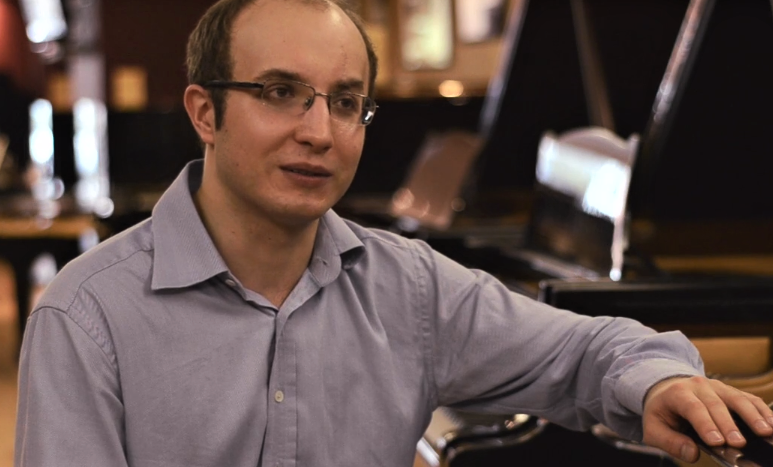 Alexander Gavrylyuk talks Bach, Mussorgsky and Schumann.